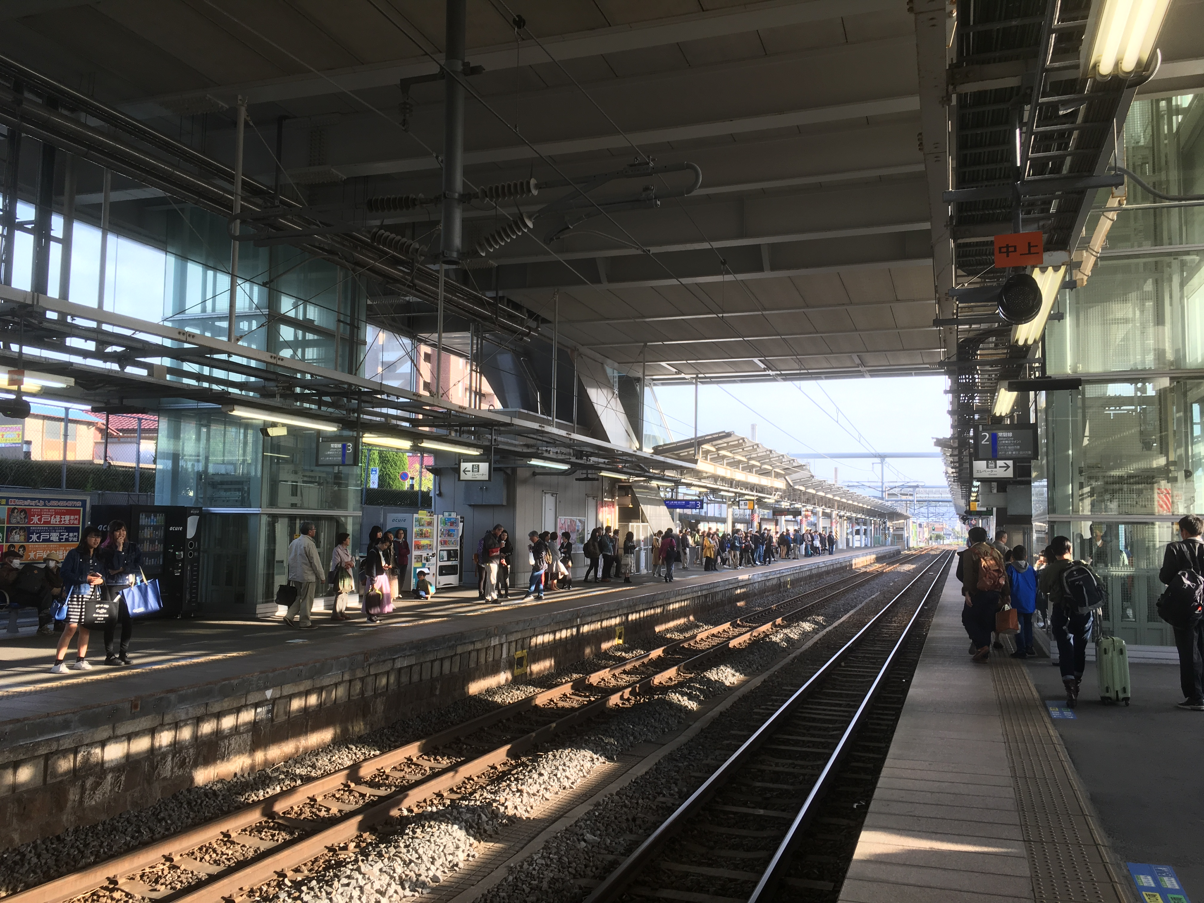 日立駅 (Hitachi Station)